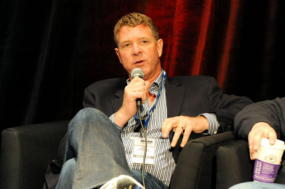 At the 2012 R&R Summit, Greg Thompson joined the 5 person panel to give insight as a member of the EMI team.